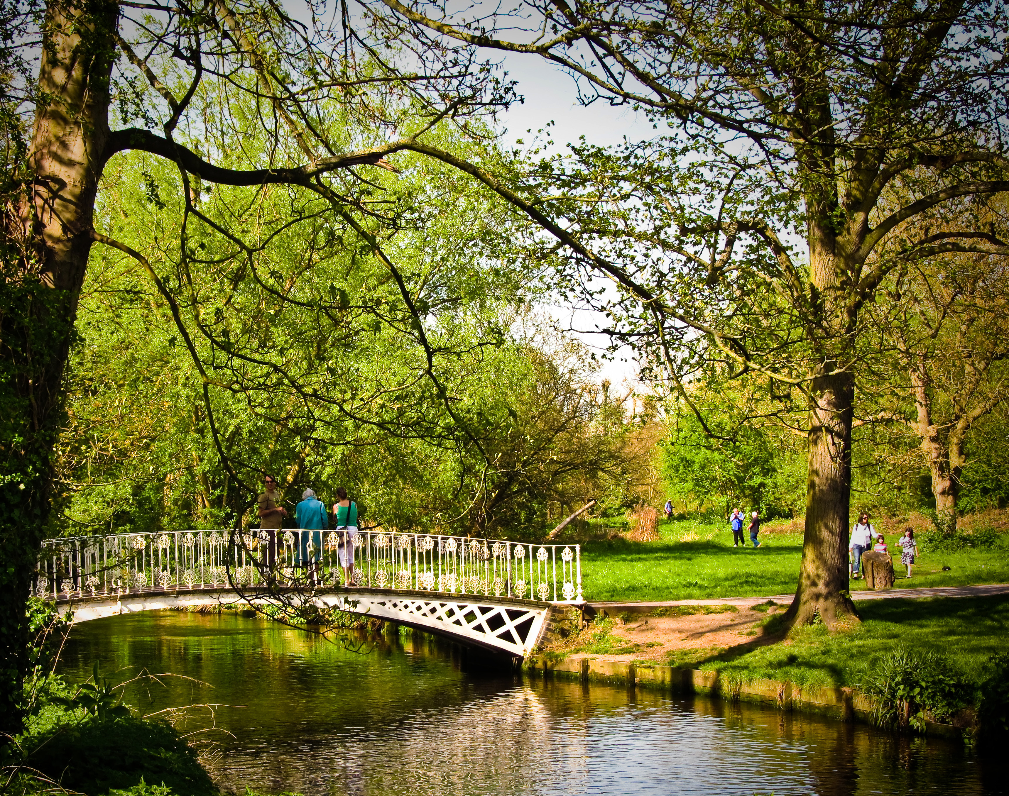 One of the many bridges over the River Wandle at Morden Hall Park.